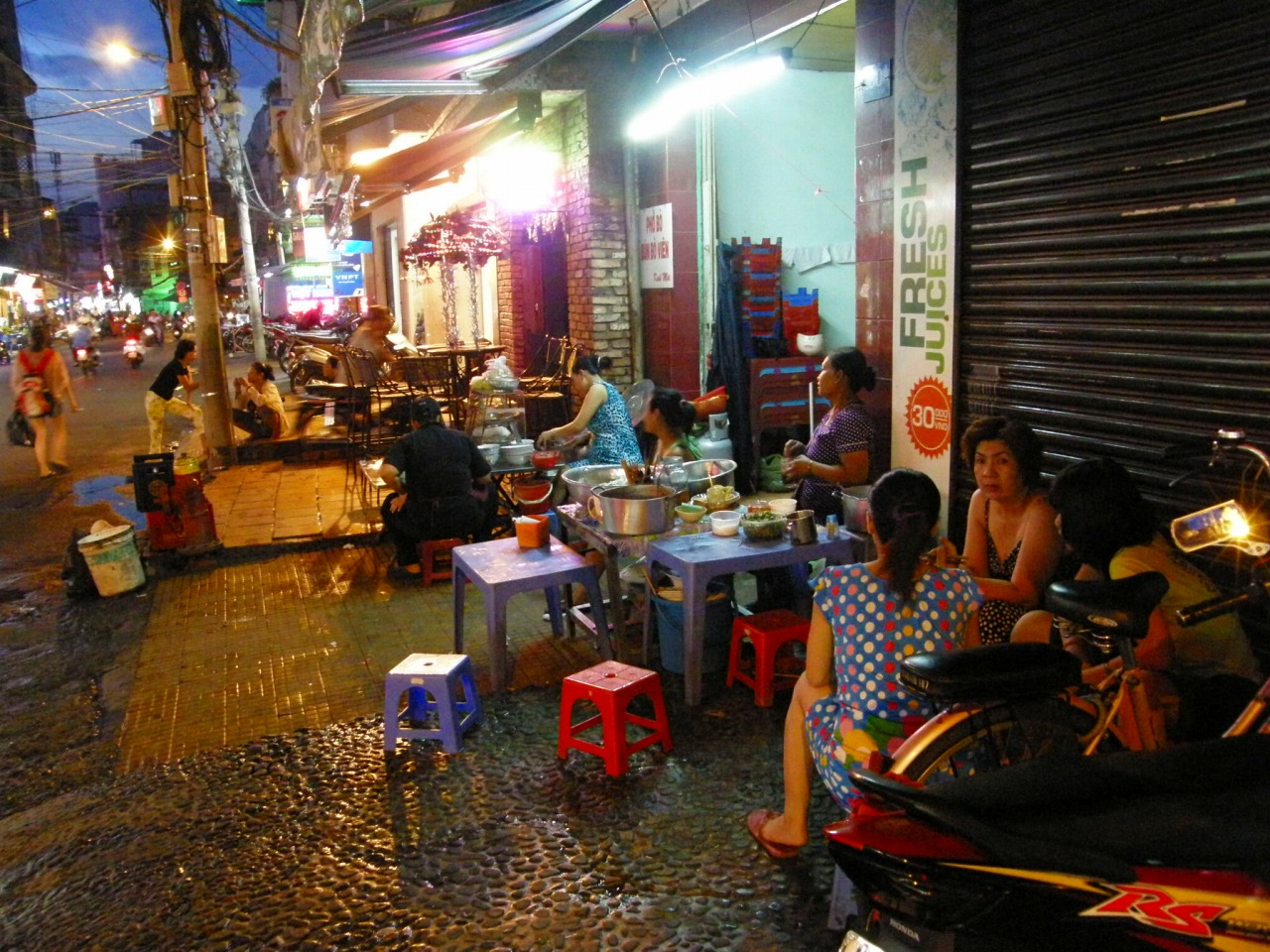 Bui Vien St. ブイヴィエン通り